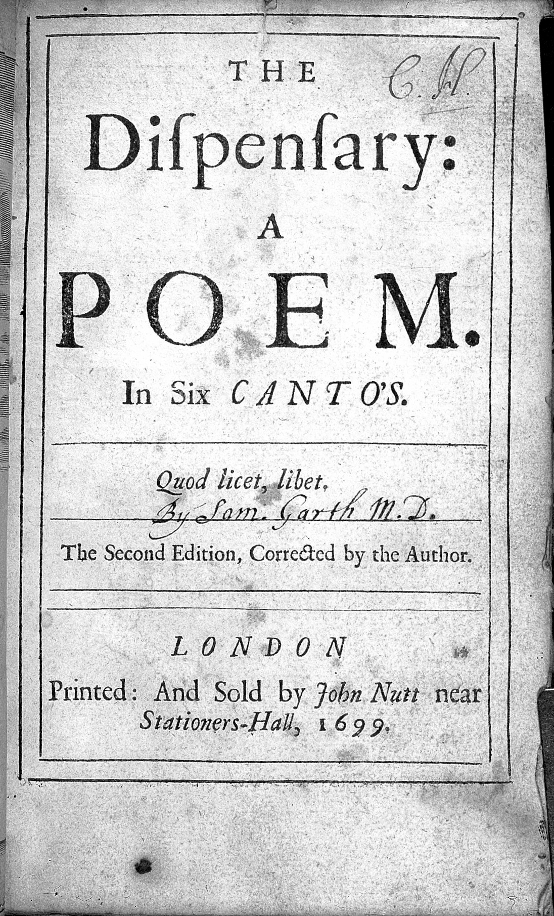 Title page Rare Books